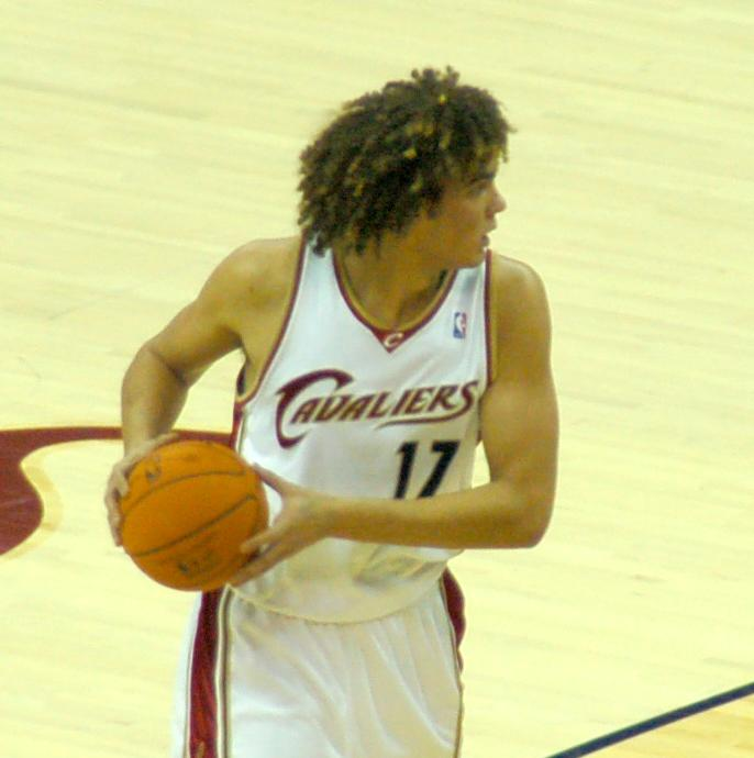 Anderson Varejão of the Cleveland Cavaliers in a home game vs. the Washington Wizards